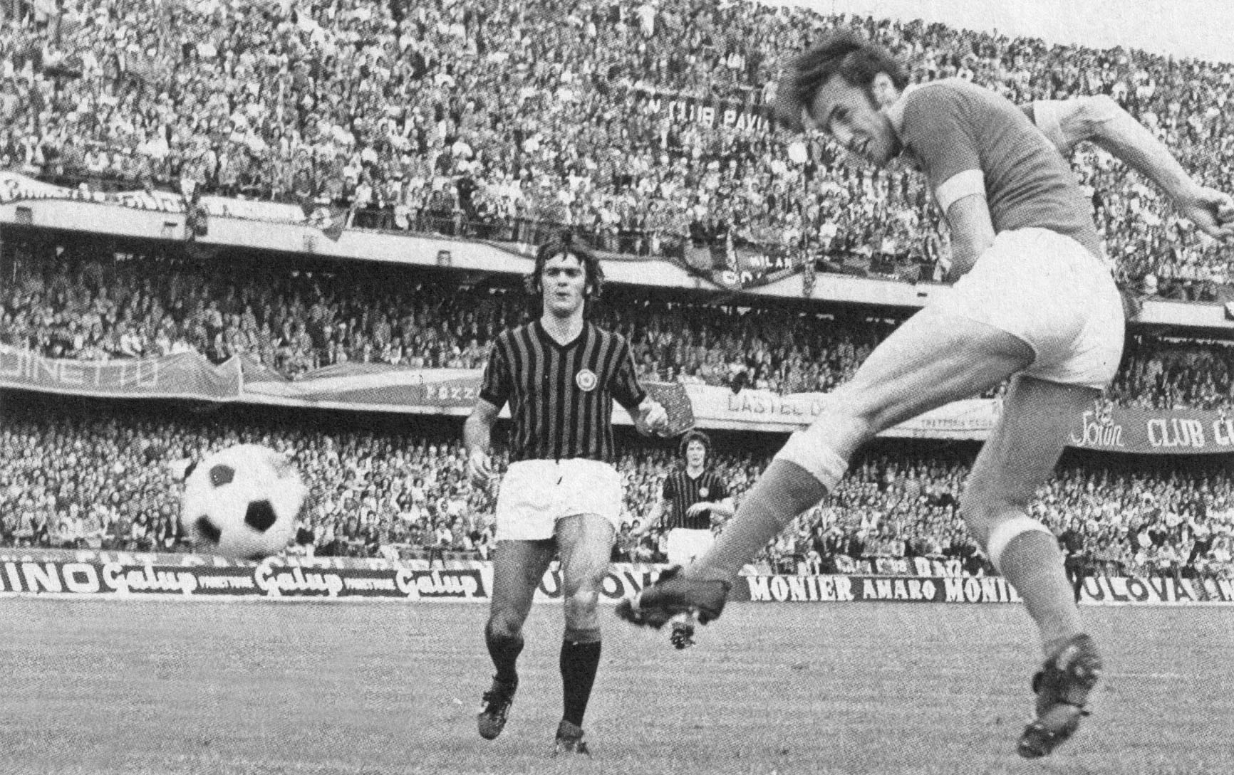 Verona, Marcantonio Bentegodi Stadium, May 20, 1973. Hellas Verona — AC Milan 5-3, Italy Championship 1972–73 Serie A. The milanist Giuseppe Sabadini watch Paolo Sirena score the first goal for Verona.